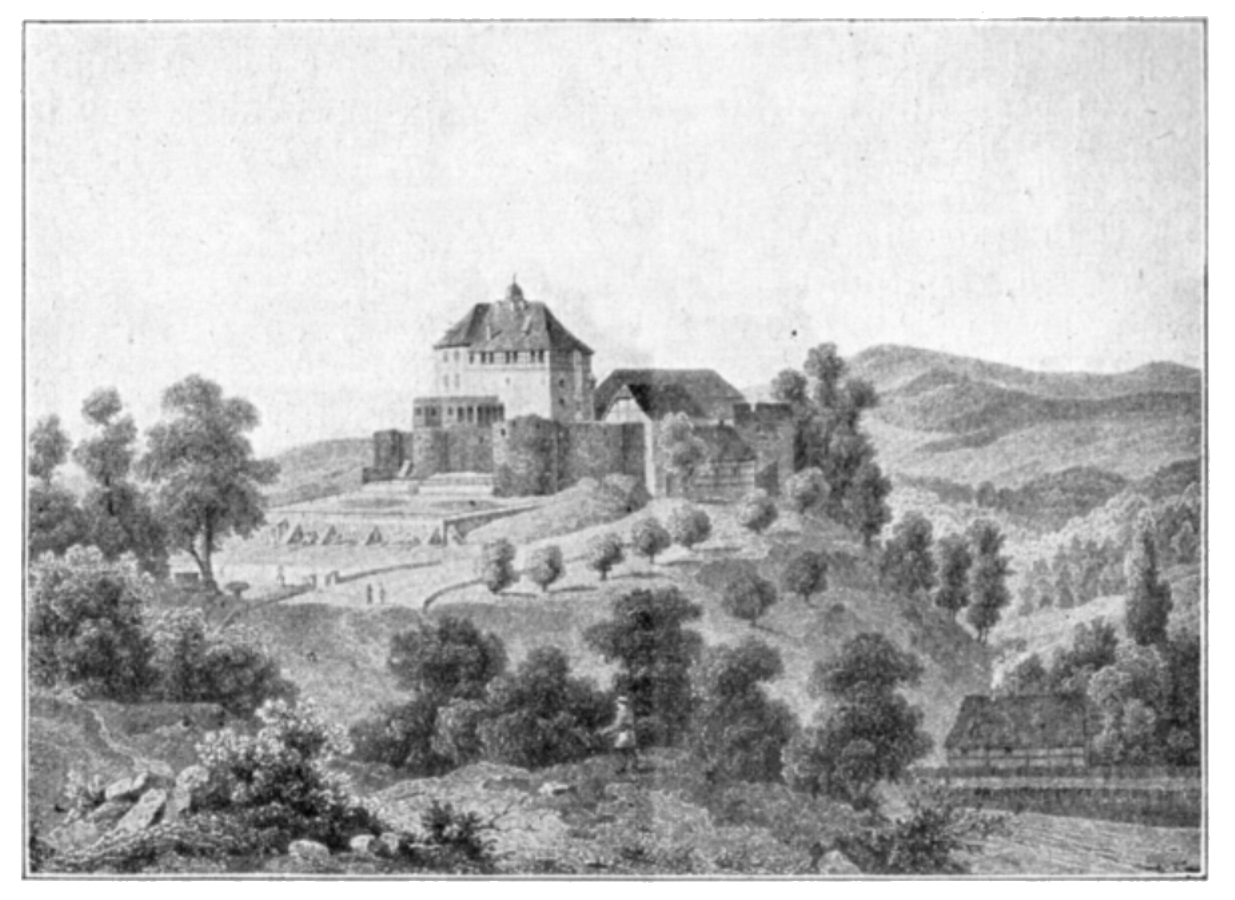 Berlepsch castle.